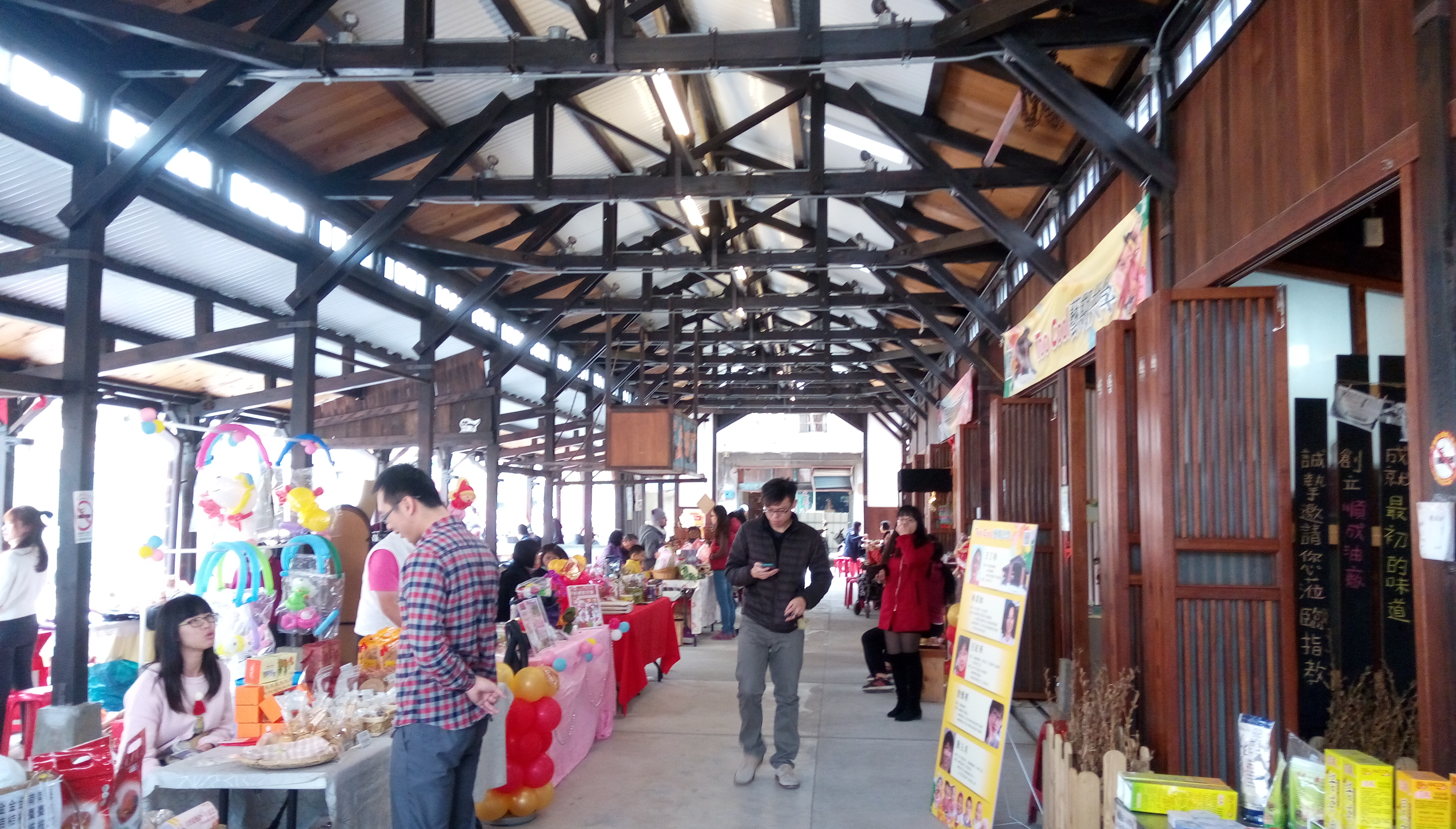 The "Former Tu-ku First Market Wooden Building", a cultural heritage of Tu-ku Township in Yun-lin County(Taiwan, ROC), was used for holding the "Rolled-up-pants Market" after it was restored at 2016.